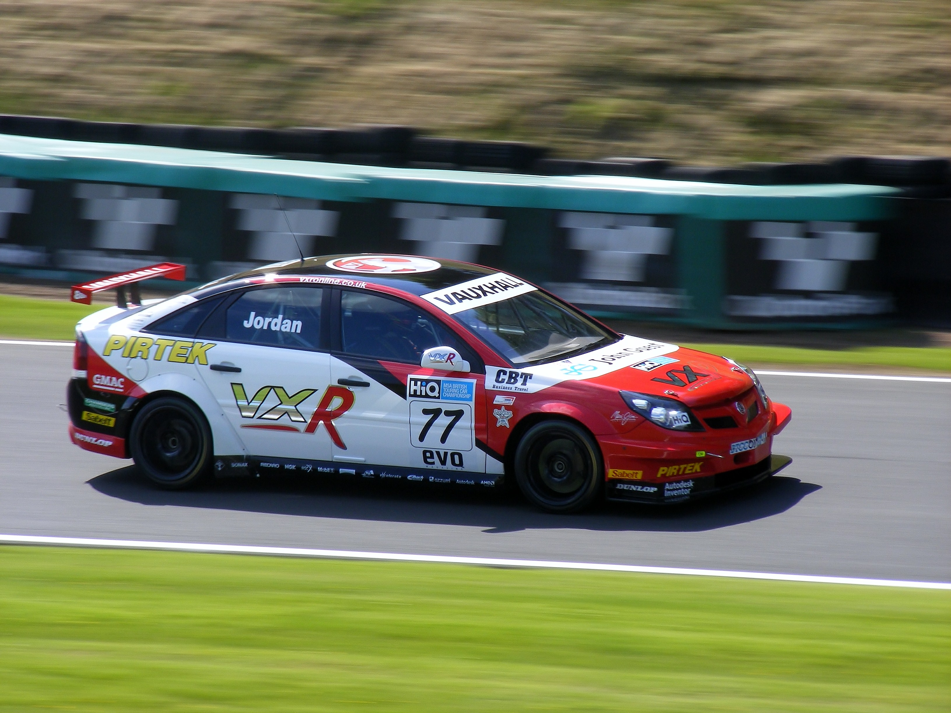 Andrew Jordan exits knickerbrook corner at Oulton Park during a qualifying session.